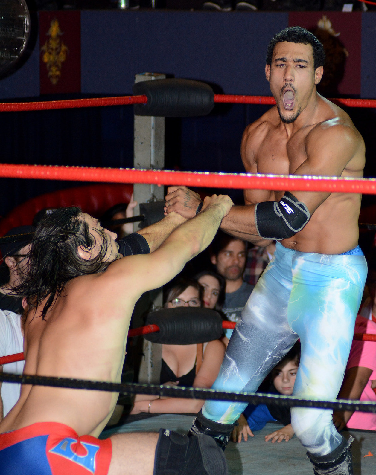 In a match with Paul London in Providence RI in the summer of 2015